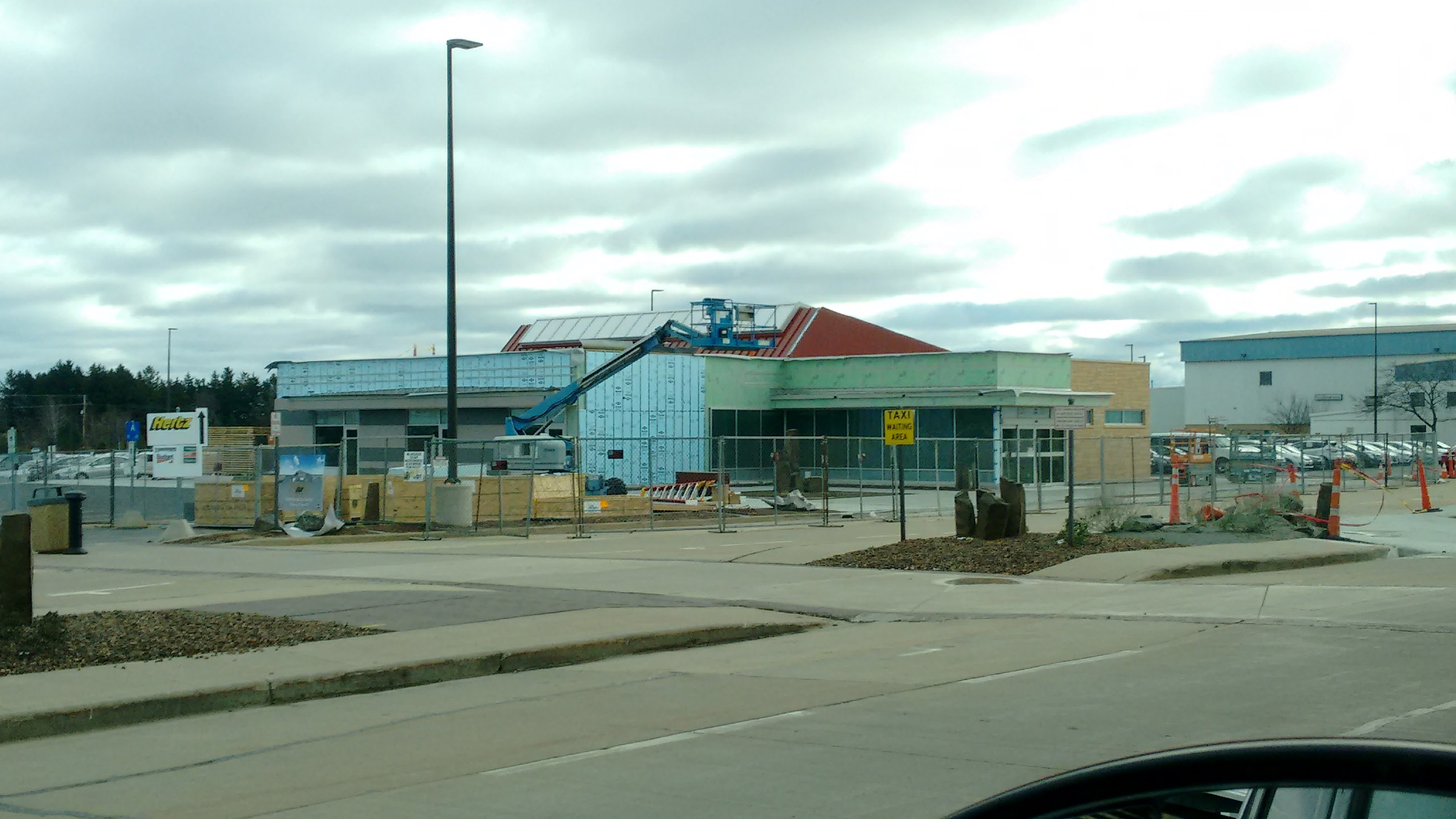 ATW Car Rental Center, almost complete